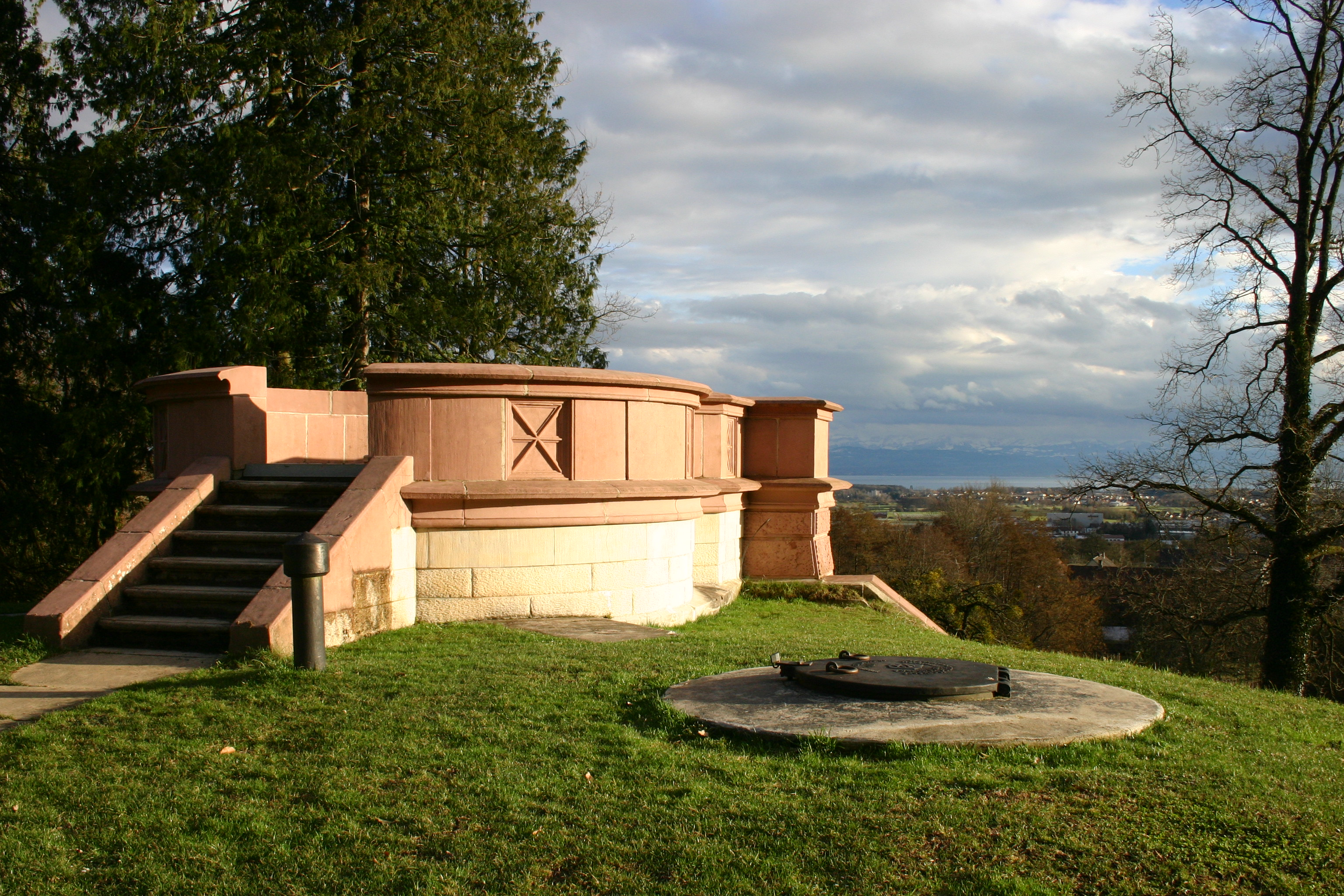 Art Nouveau cistern Markdorf-Mögggenweiler, district Bodenseekreis, Baden-Württemberg, Germany